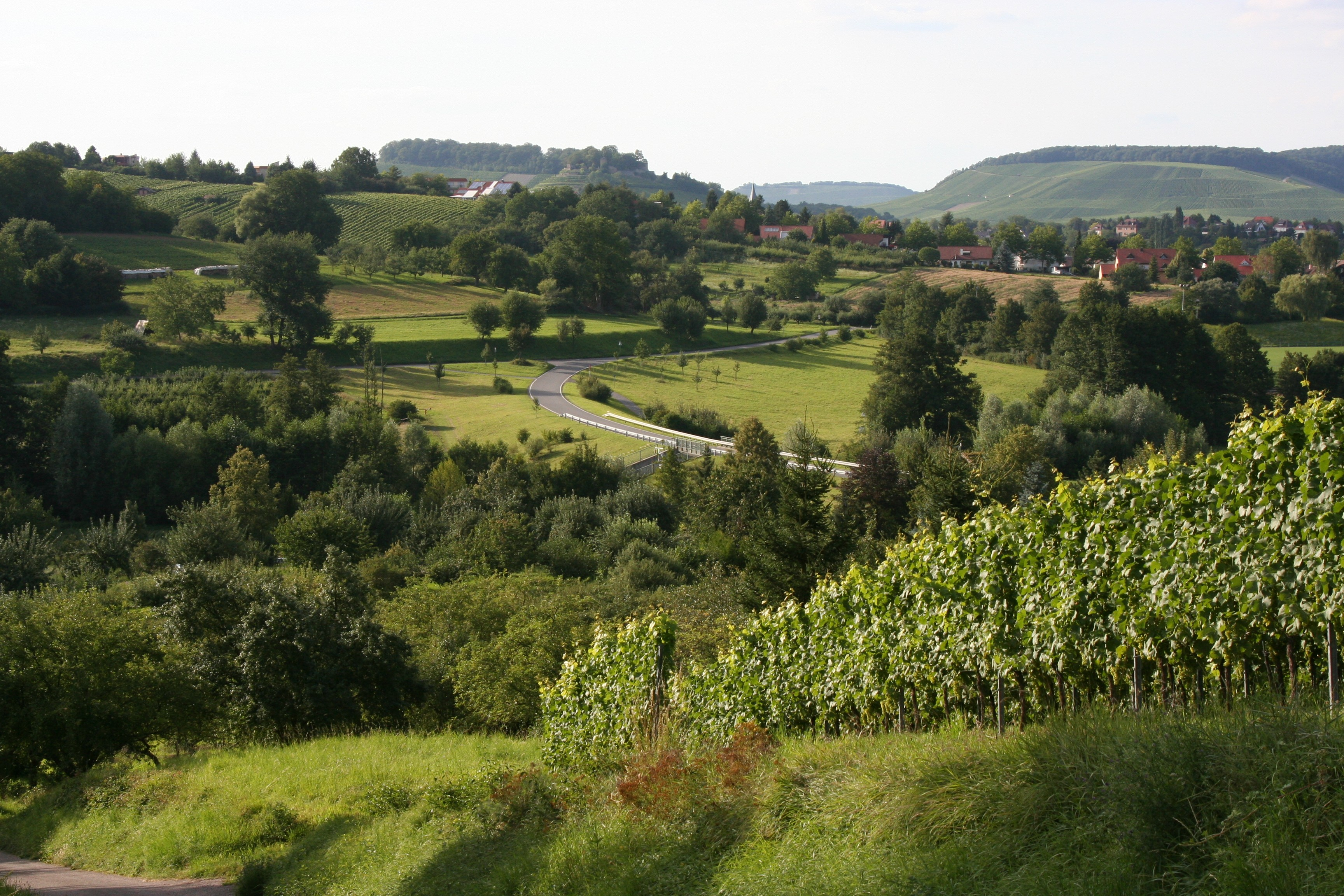 The Stadtseetal valley in Weinsberg with the dam of the detention basin